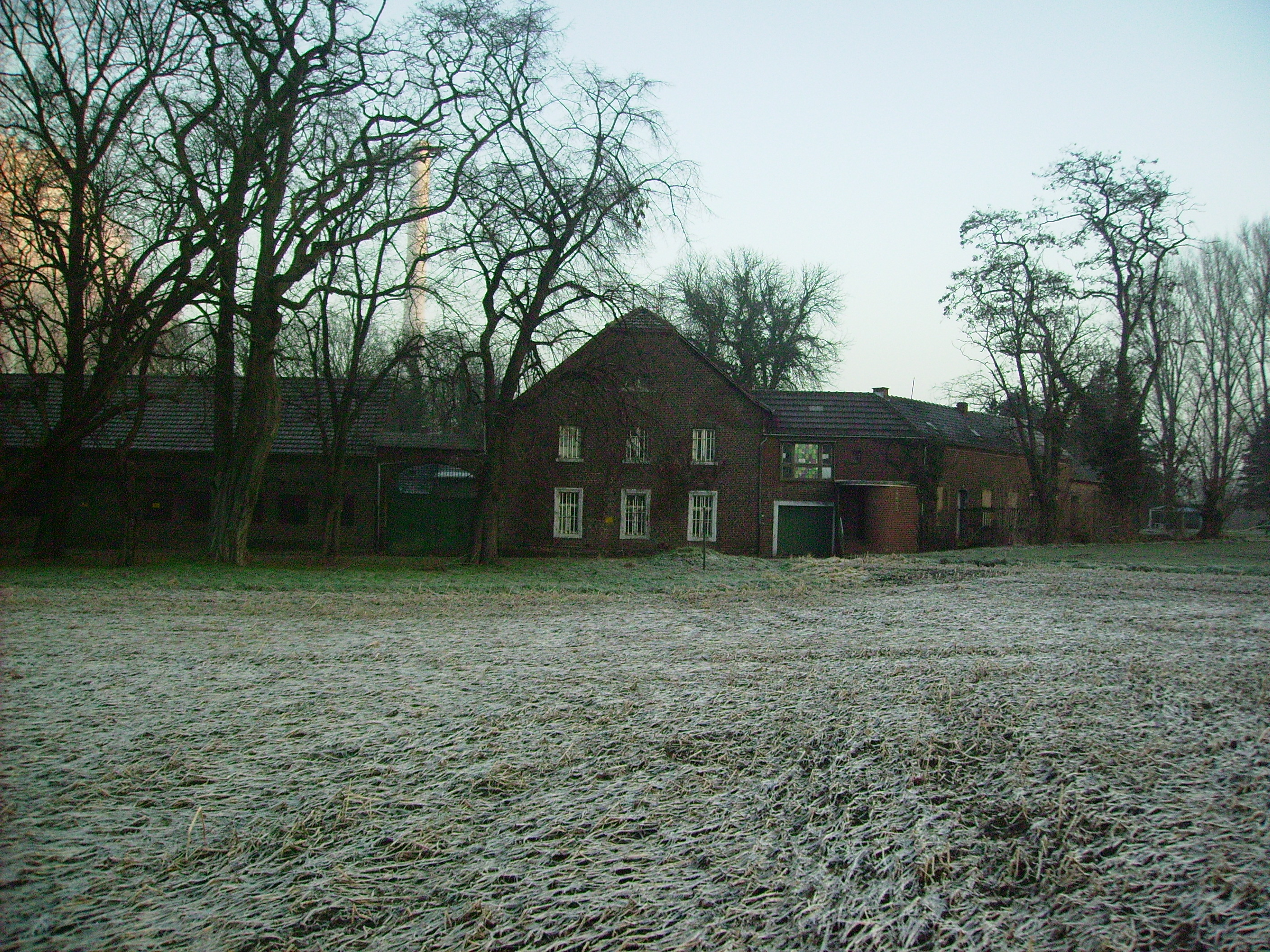 Old farm called Gut Nanderath near by Neurath, Grevenbroich, Germany